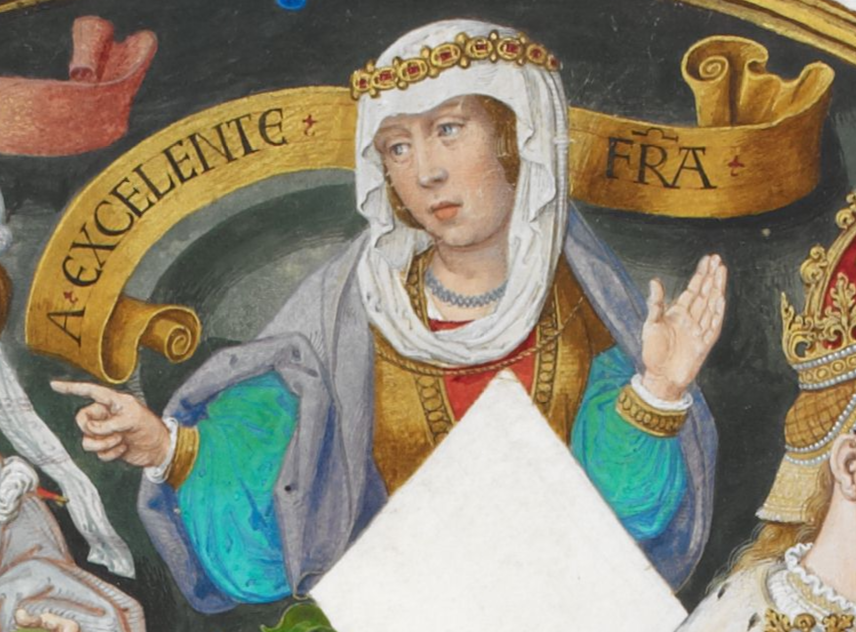 Joanna la Beltraneja, or the Excellent Mistress (1462-1530).